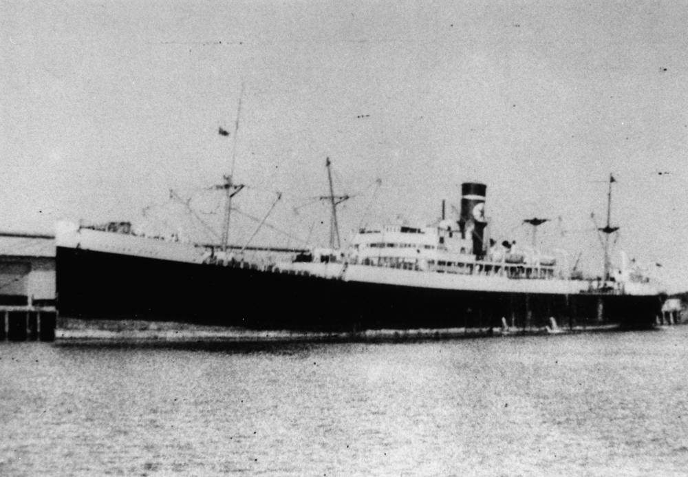 Trojan Star (ship) Owned by the Blue Star Line. Ship caught fire in the Indian Ocean. Photo taken after the fire when the ship arrived back in port. (Description supplied with photograph.).